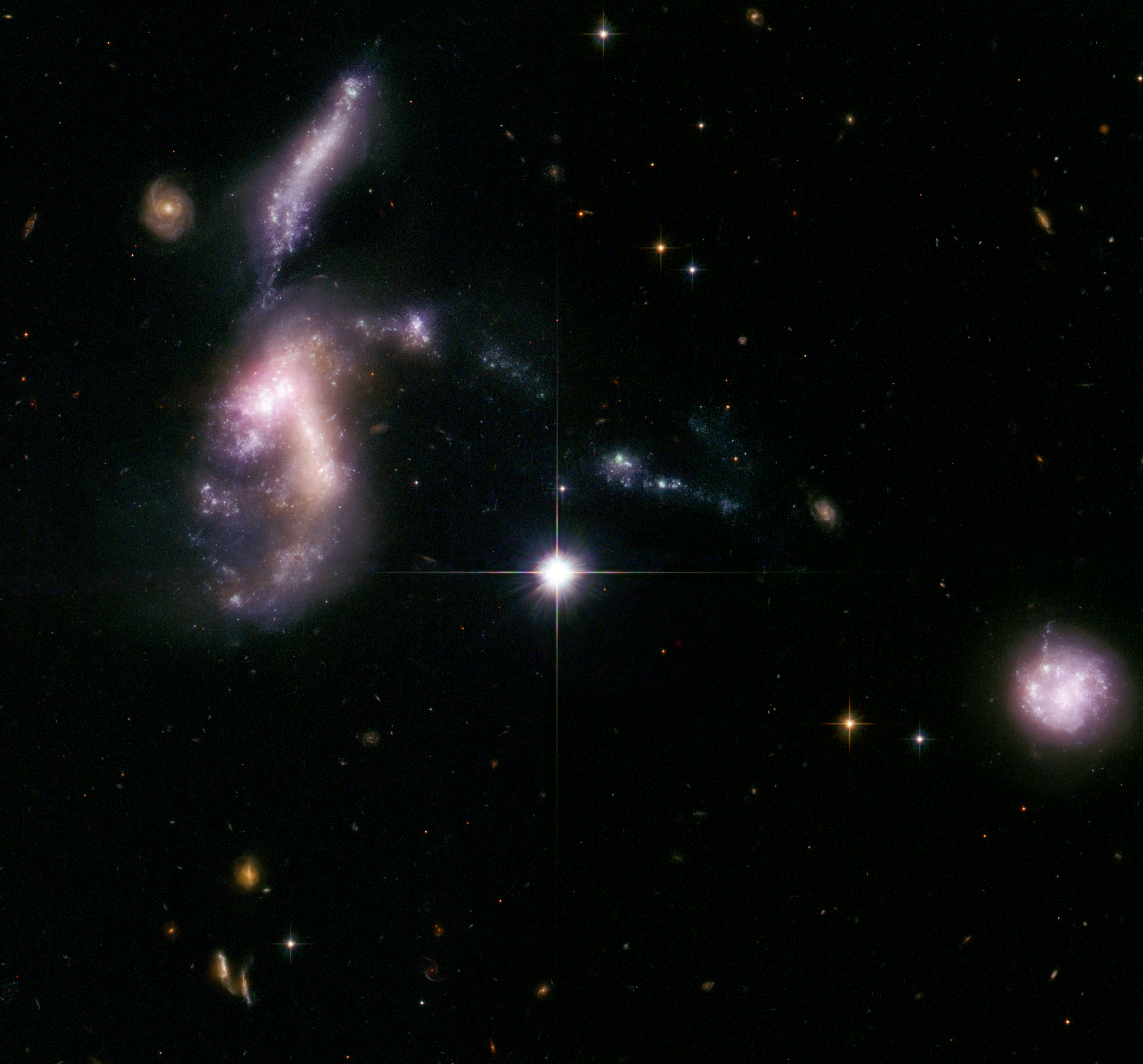 In this composite image of the galaxy grouping, the bright, distorted object at middle, left, is actually two colliding dwarf galaxies. Myriad star clusters have formed in the streamers of debris pulled from the galaxies and at the site of their head-on collision. The cigar-shaped object above the galaxy duo is another member of the group. A bridge of star clusters connects the trio. A long rope of bright star clusters points to the fourth member of the group, at lower right. The bright object in the centre is a foreground star. The image was composed from observations made by the Hubble Space Telescope's Advanced Camera for Surveys, NASA's Spitzer Space Telescope, and the Galaxy Evolution Explorer (GALEX).